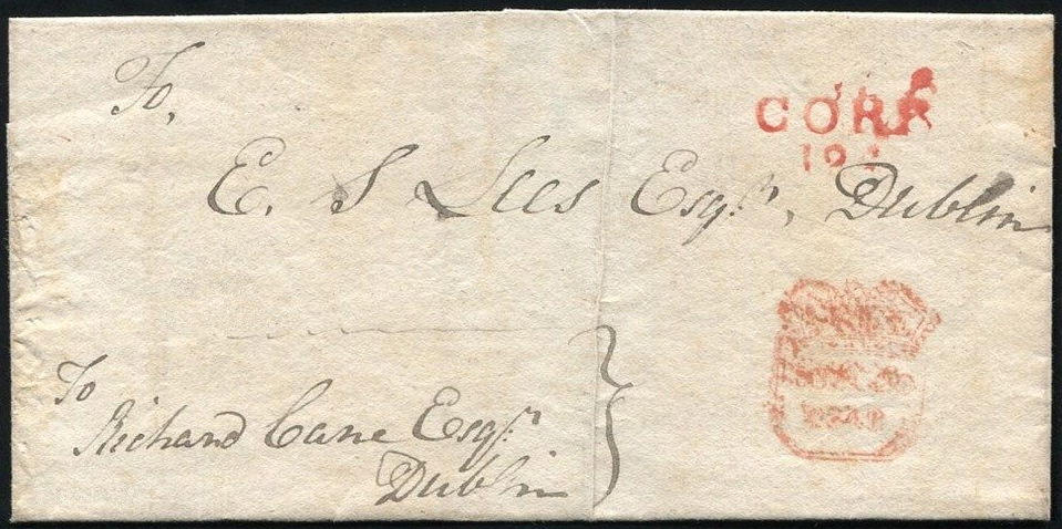 Entire letter from Cork to GPO Dublin addressed to Edward Smith Lees Secretary to the Postmasters General of Ireland with Cork 124 mileage mark in red and unclear Dublin receiving handstamp in red circa 1818